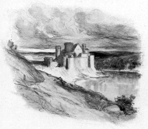 W. H. Margetson illustrtaion from Legends of King Arthur and His Knights.